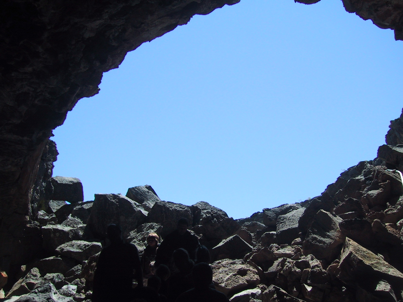 Ice Cave Shoshone Idaho